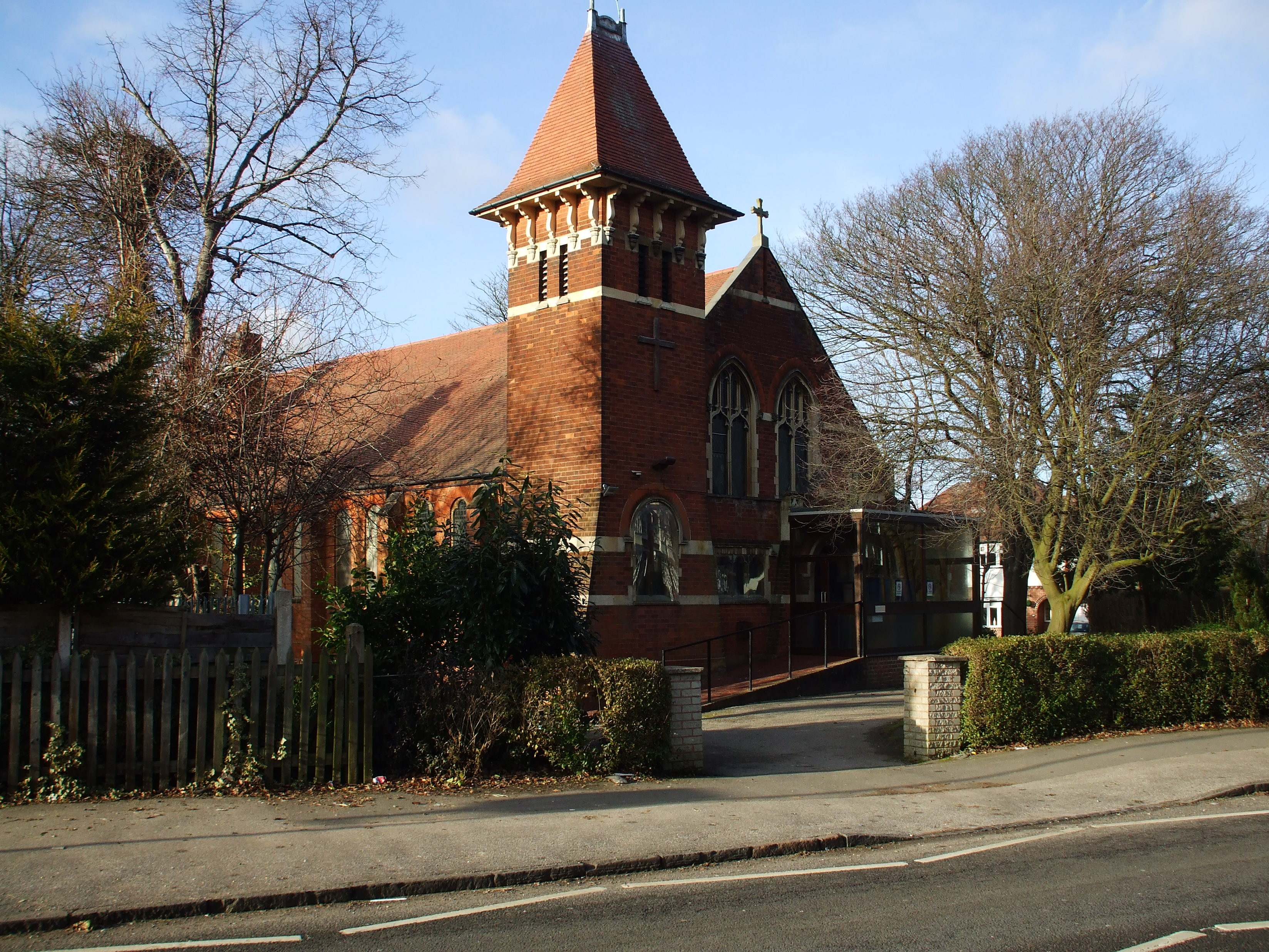 United Reform Church Olton Solihull west Midlands